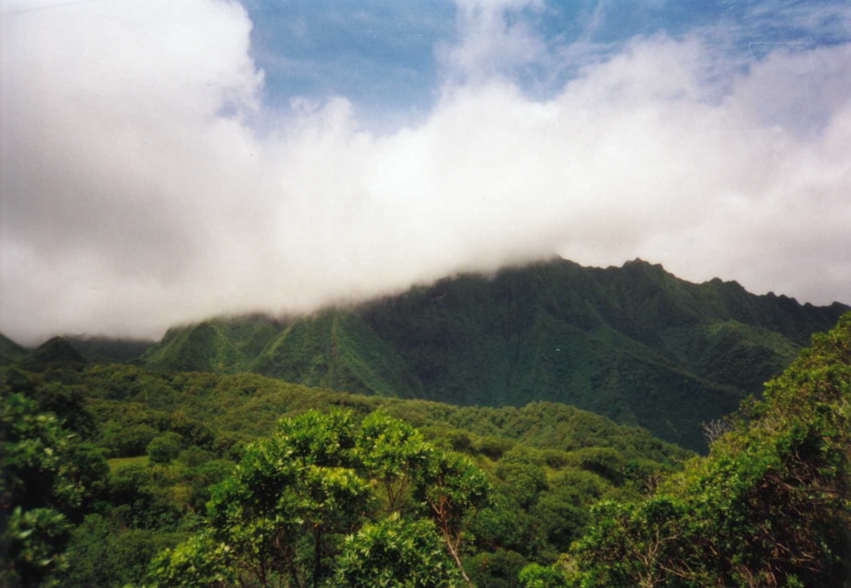 The mountainous interior of Fatu Hiva Island, Marquesas Islands, French Polynesia